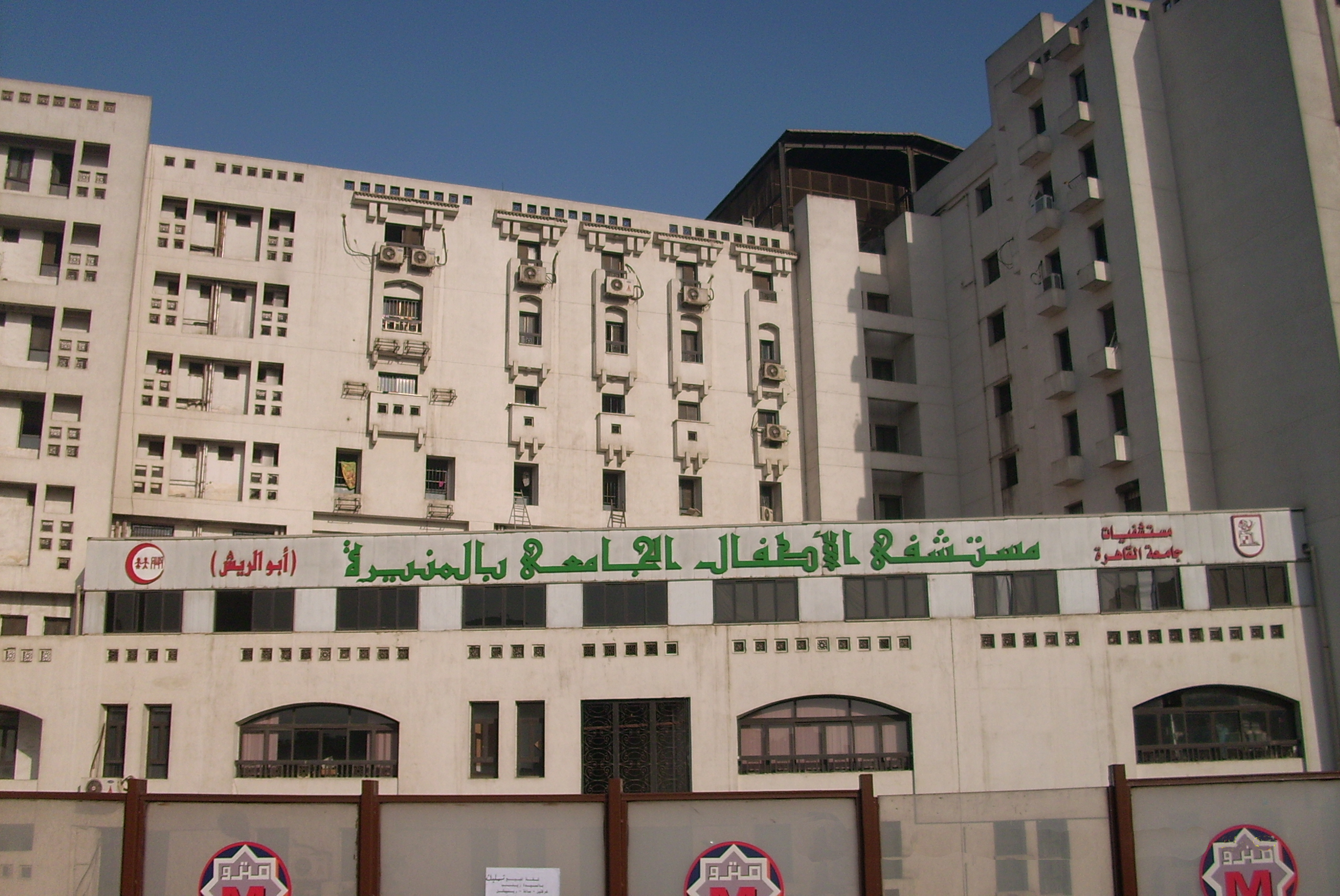 Cairo Univ - Abou el-Resh Pediatric University Hosp